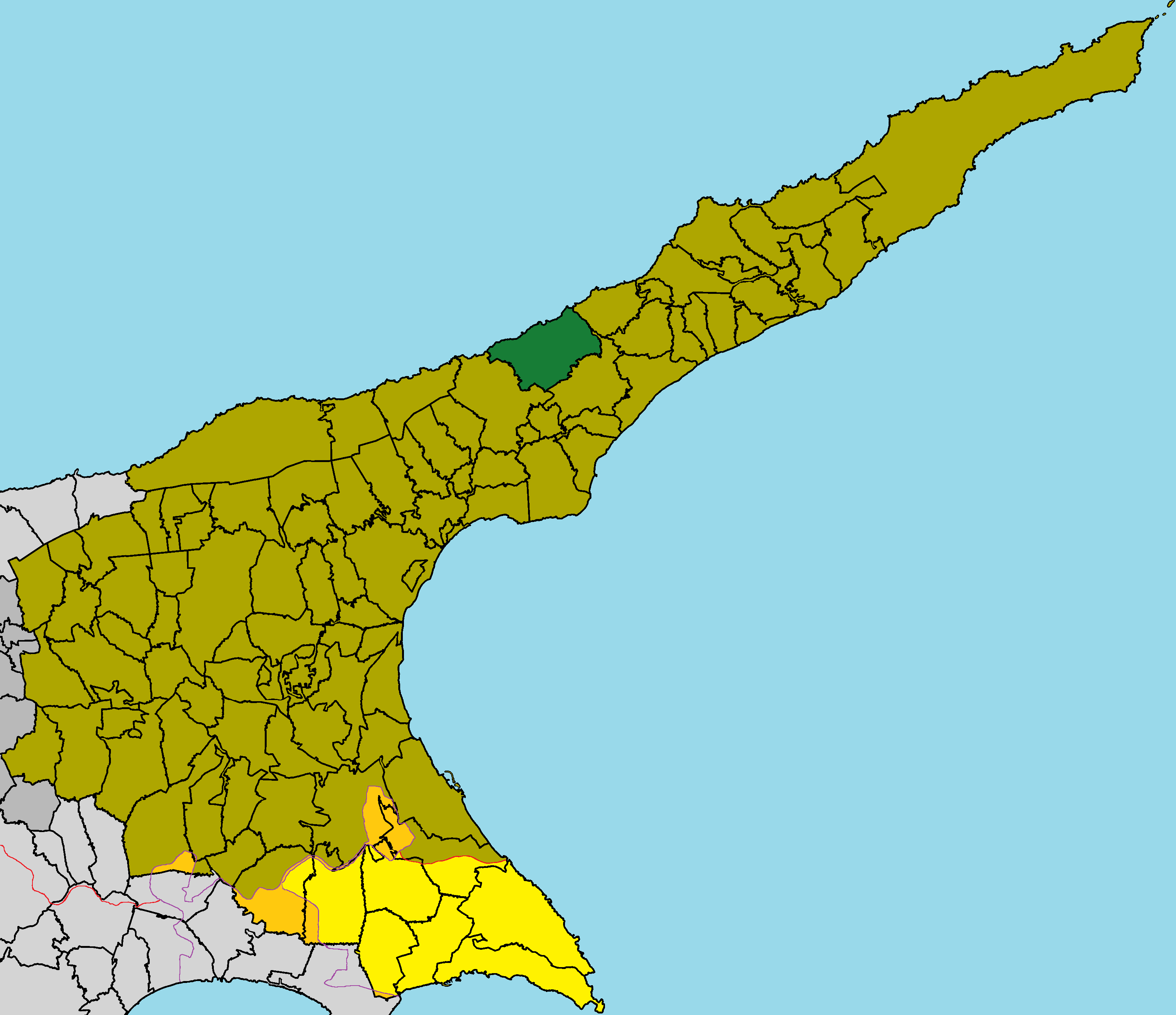 Eptakomi in Famagusta District (de jure).